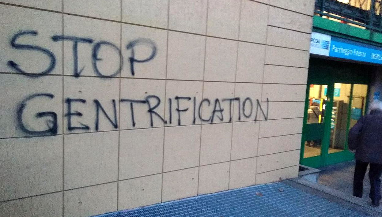 STOP GENTRIFICATION: graffiti in Turin (IT), multi-story car park Porta Palazzo